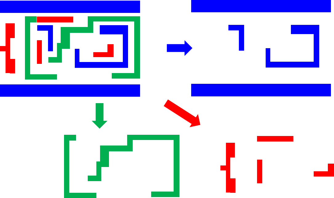 An example of non-ideal LE3 triple patterning. Each mask exposure uses patterns which individually difficult to image.